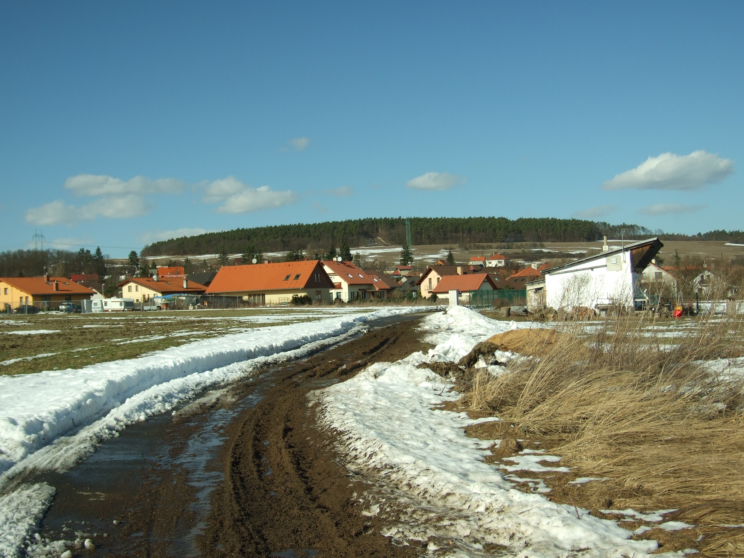 A road to Masečín, part of Štěchovice, Central Bohemian Region, CZ